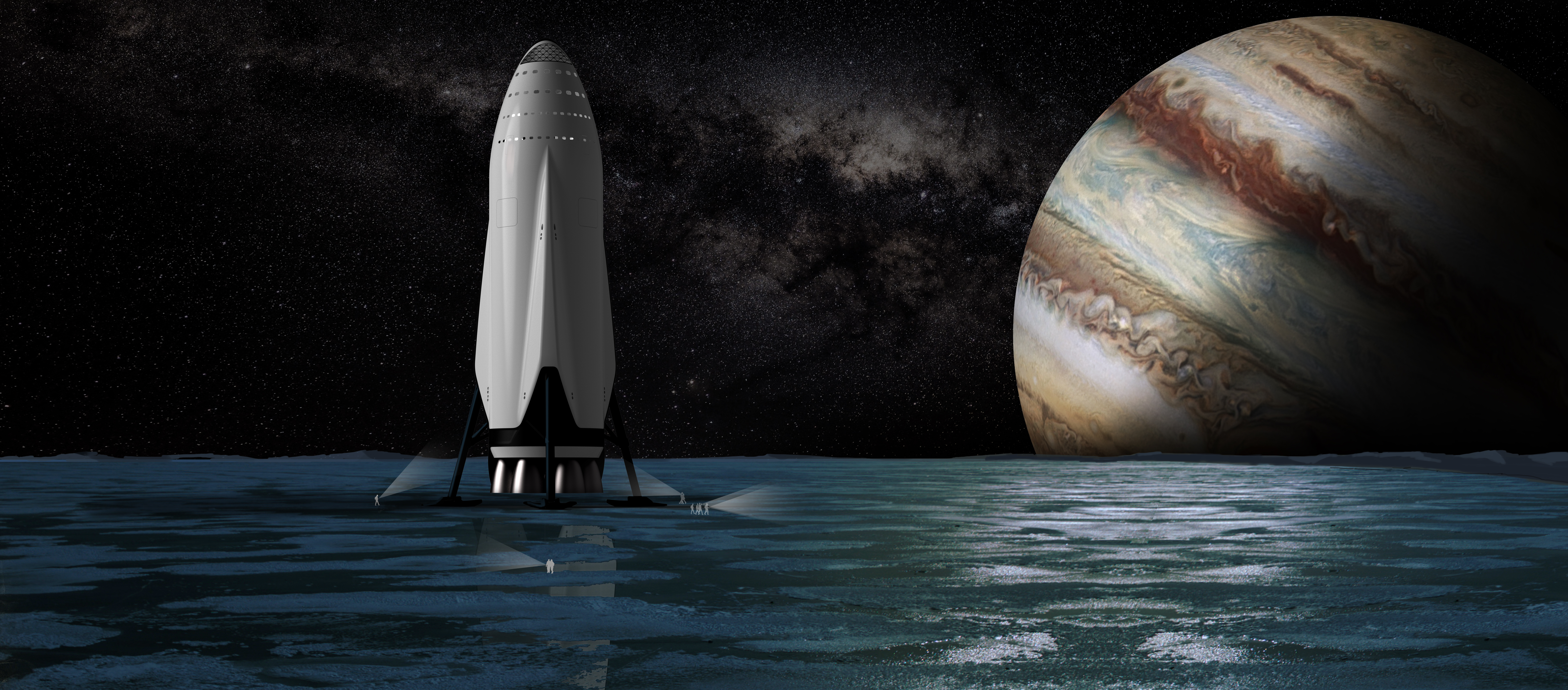 Interplanetary Spaceship, landed on Jovian moon Europa.